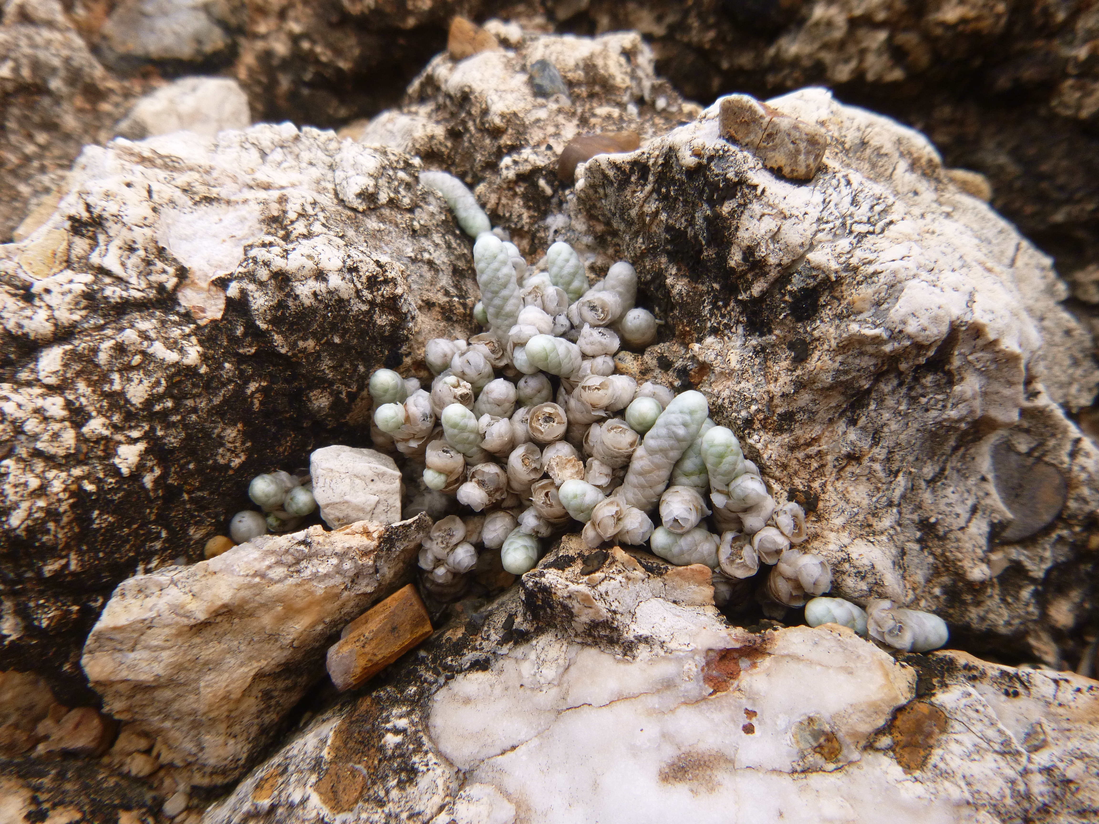 Anacampseros papyracea (Anacampserotaceae). Growing on limestone in Northern Cape province, South Africa.